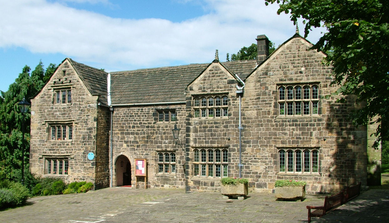 The Manor House, Ilkley, West Yorkshire, England